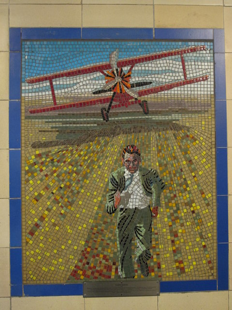 Leytonstone tube station - Hitchcock Gallery: North by Northwest (1959)